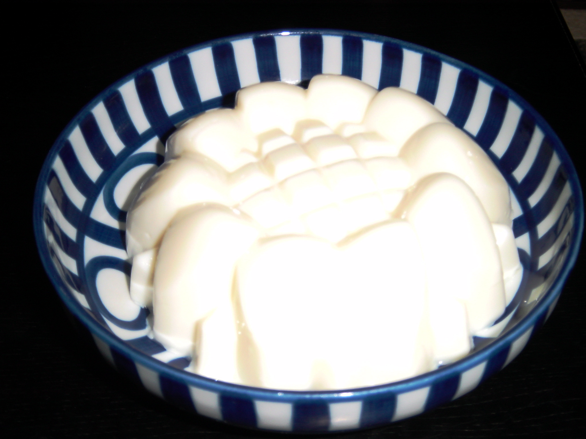 Blancmange of British style